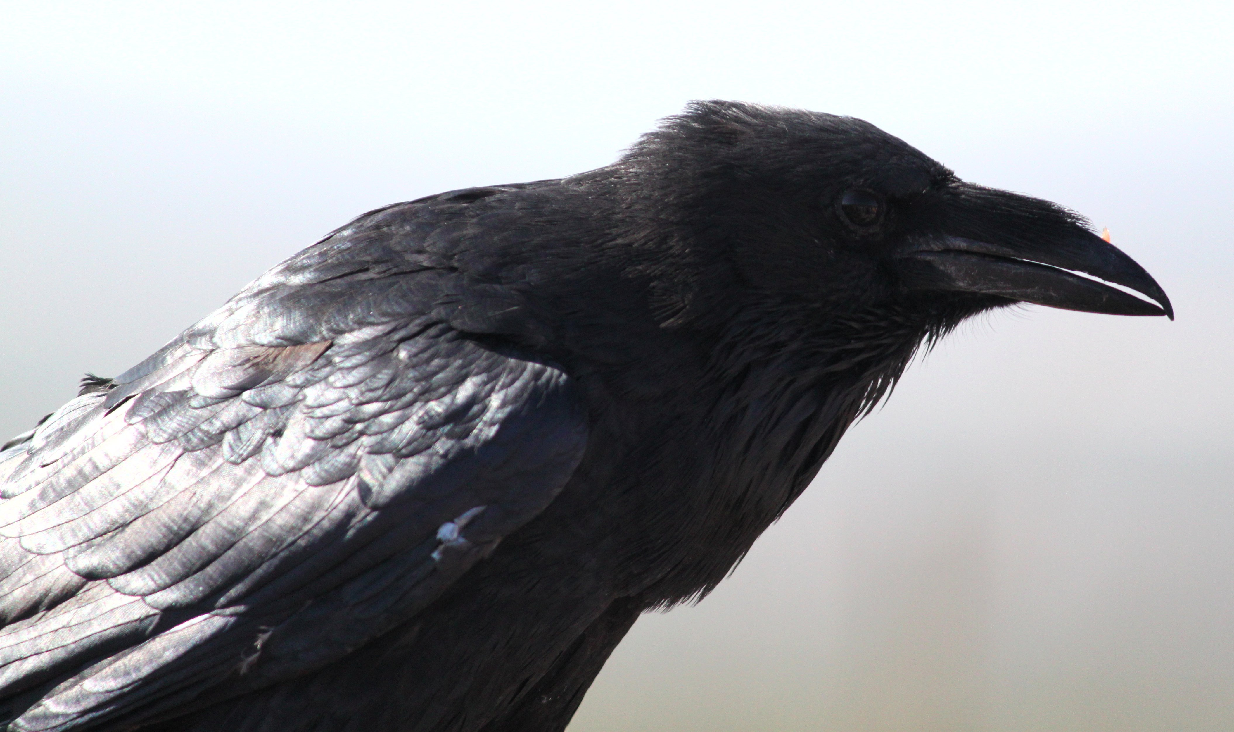 Chihuahuan Raven (Corvus cryptoleucus) in side view, Sonora Desert Museum.